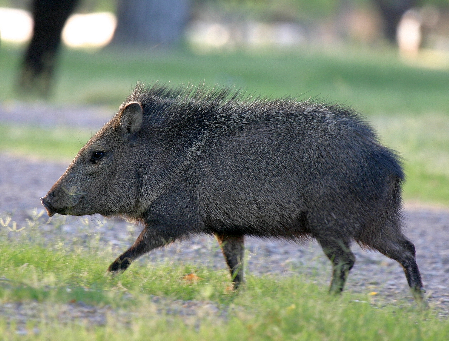 A running collared peccary or javelina (Pecari tajacu) in Big Bend National Park, Texas, USA